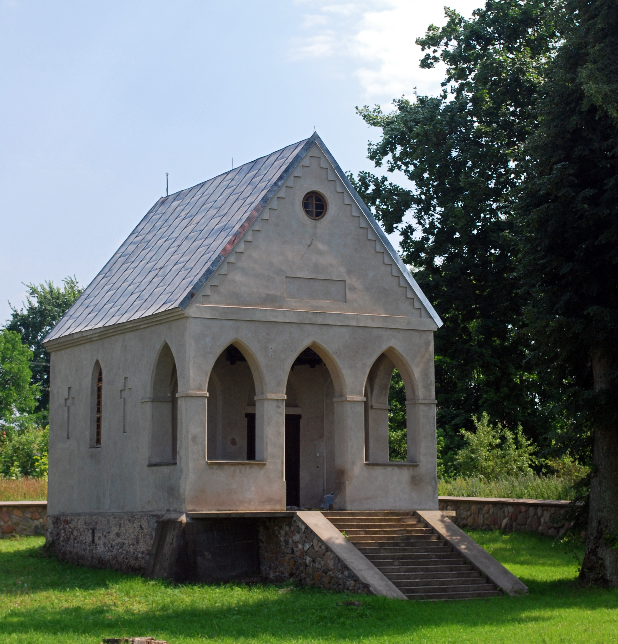 This photo from Podlaskie Voievodeship was taken during Polish Wikiexpedition 2009 set up by Wikimedia Polska Association. The making of this document was supported by Wikimedia Polska. Kaplica Hermanna w Smolanach.